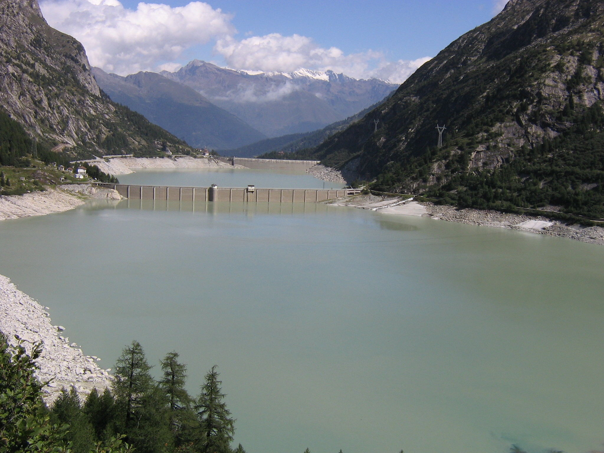 Lake Benedetto, an artificial lake located at 1930 meters above sea level near Temù, Val Camonica, Italy. The other artificial lake visible behind the dam is Lake Avio, that lies at a slightly lower height. On the background, Ortler Alps.